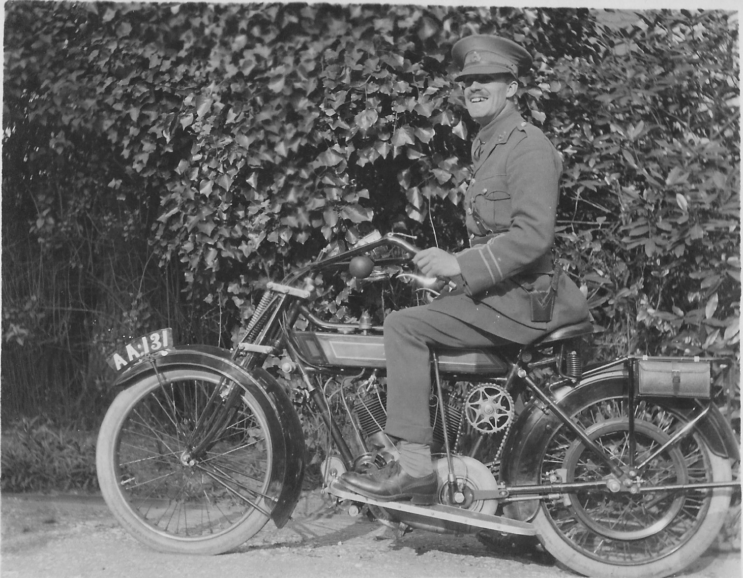 Photograph of Alan Gordon-Finlay in the uniform of 2nd King Edward's Horse, circa 1914